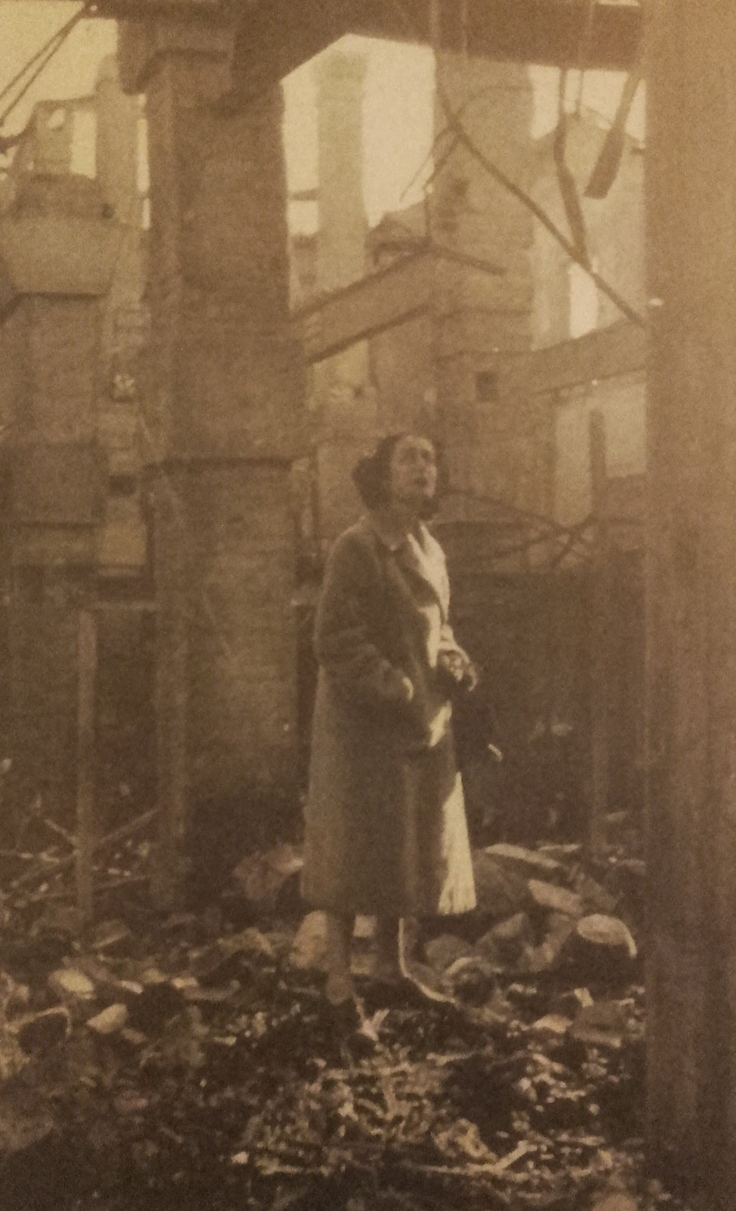 The headquarters of the Paolo Morassutti Company after the 2nd World War